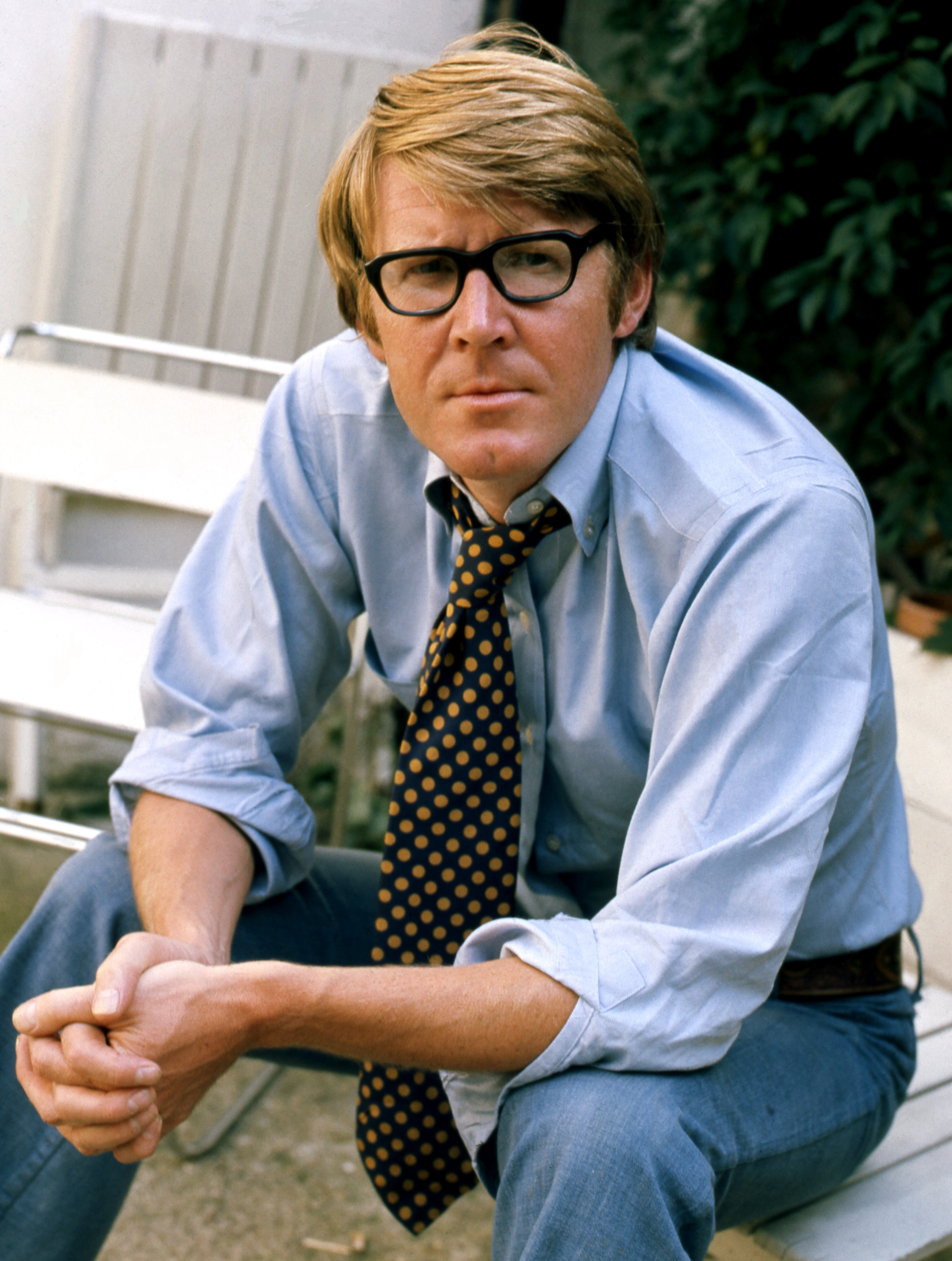 Portrait photograph of Alan Bennett wearing a wide necktie in 1973; taken in photographers garden London